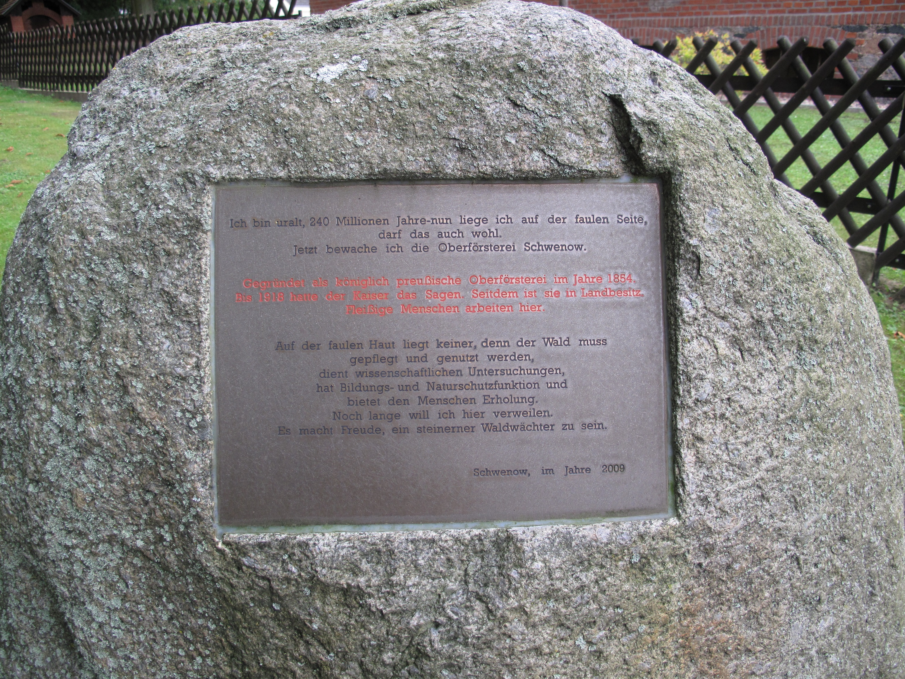 Glacial erratic at the forester's lodge Schwenow. Schwenow is a village in the District Oder-Spree, Brandenburg, Germany. Schwenow belongs to Limsdorf, a part (german: Ortsteil) of the town Storkow.